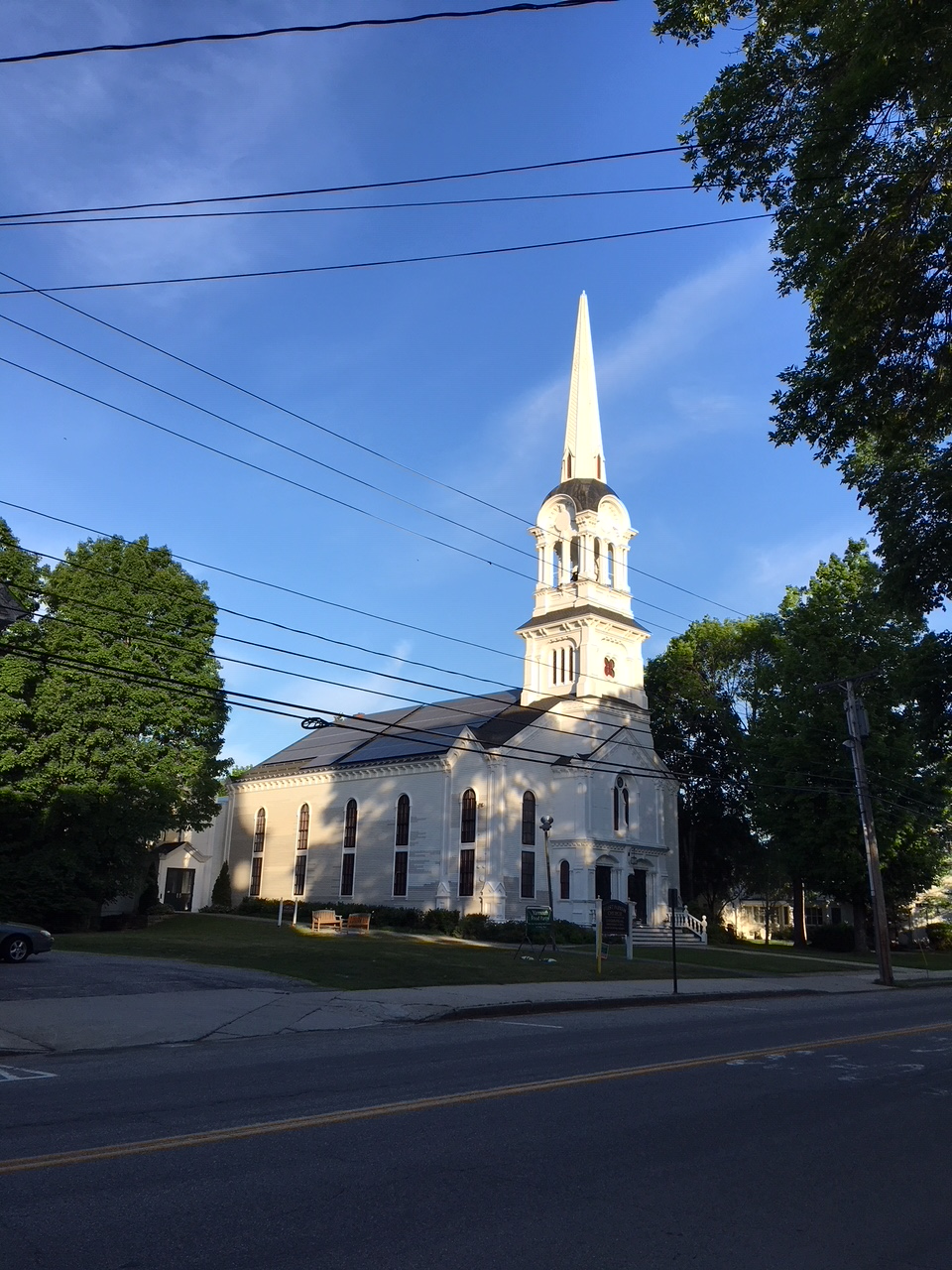 First Parish Congregational Church, Yarmouth, Maine